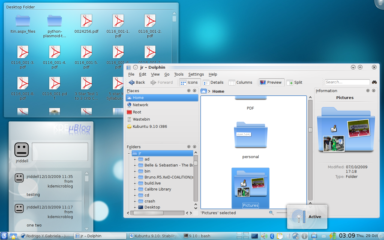 Screenshot of Kubuntu 9.10